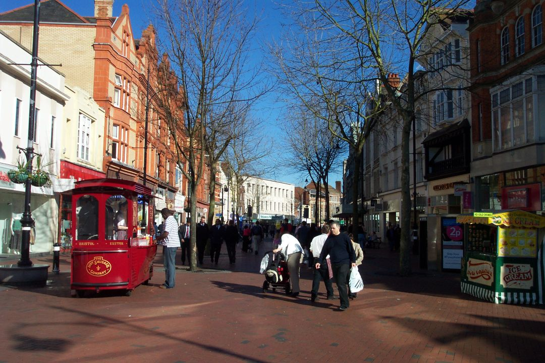 Broad Street, the main shopping street of Reading, Berkshire, UK. For more information, see the Wikipedia article Broad Street, Reading.